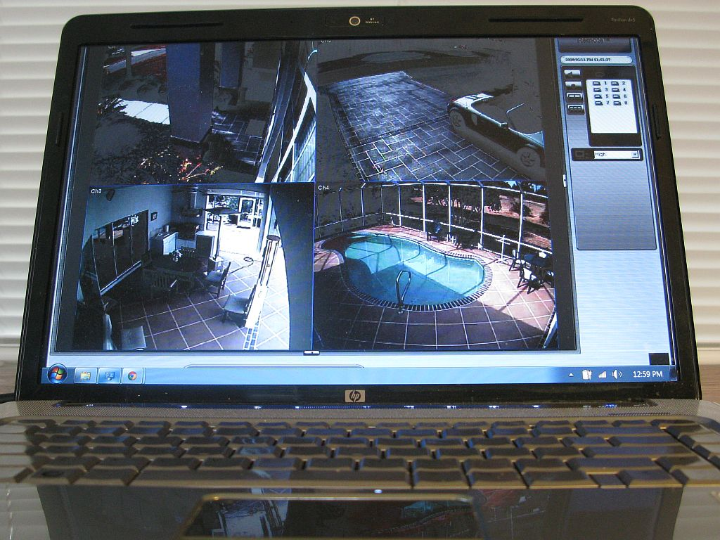 An older laptop's webcam can become a useful, low-cost home monitoring system.